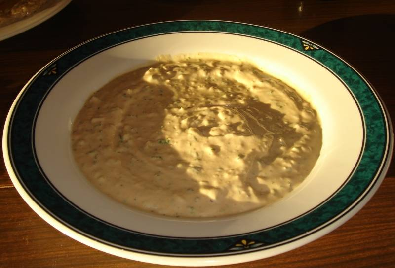 Tahini (sesame seeds paste) with unidentified additional components